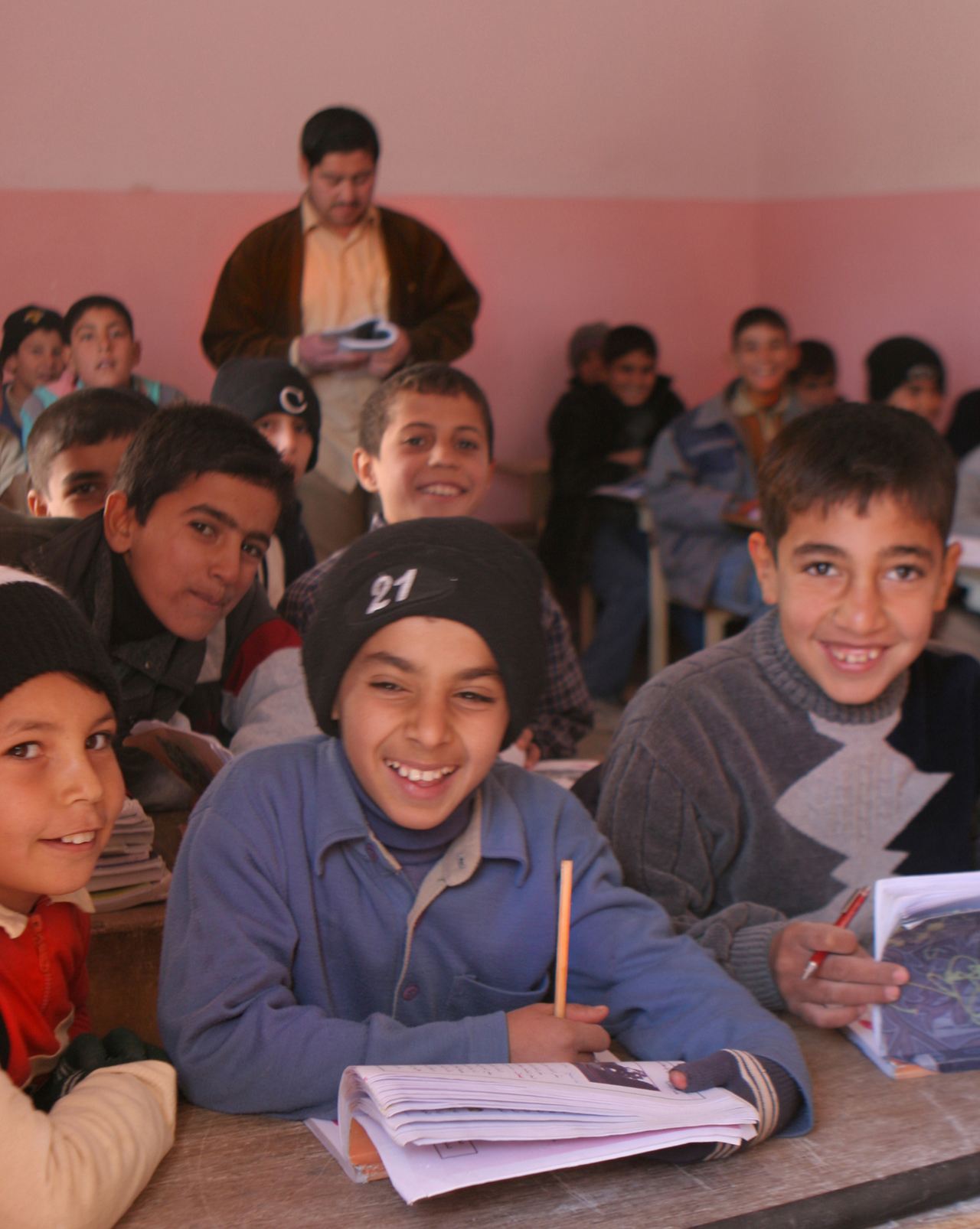 Iraqi students cheer and smile at the sight of the Marine troops who visited the school to distribute letters written by American children from Boston and Maine public schools here recently. The letters were distributed as part of �Operation Iraqi Pen Pal�, which is a letter exchange program bridging the gap between the young students of the local Iraqi schools here, and students in the United States. The opportunity and operational atmosphere that allows a program such as this is evidence to the security and progress being made by Marine units throughout the Anbar province here.